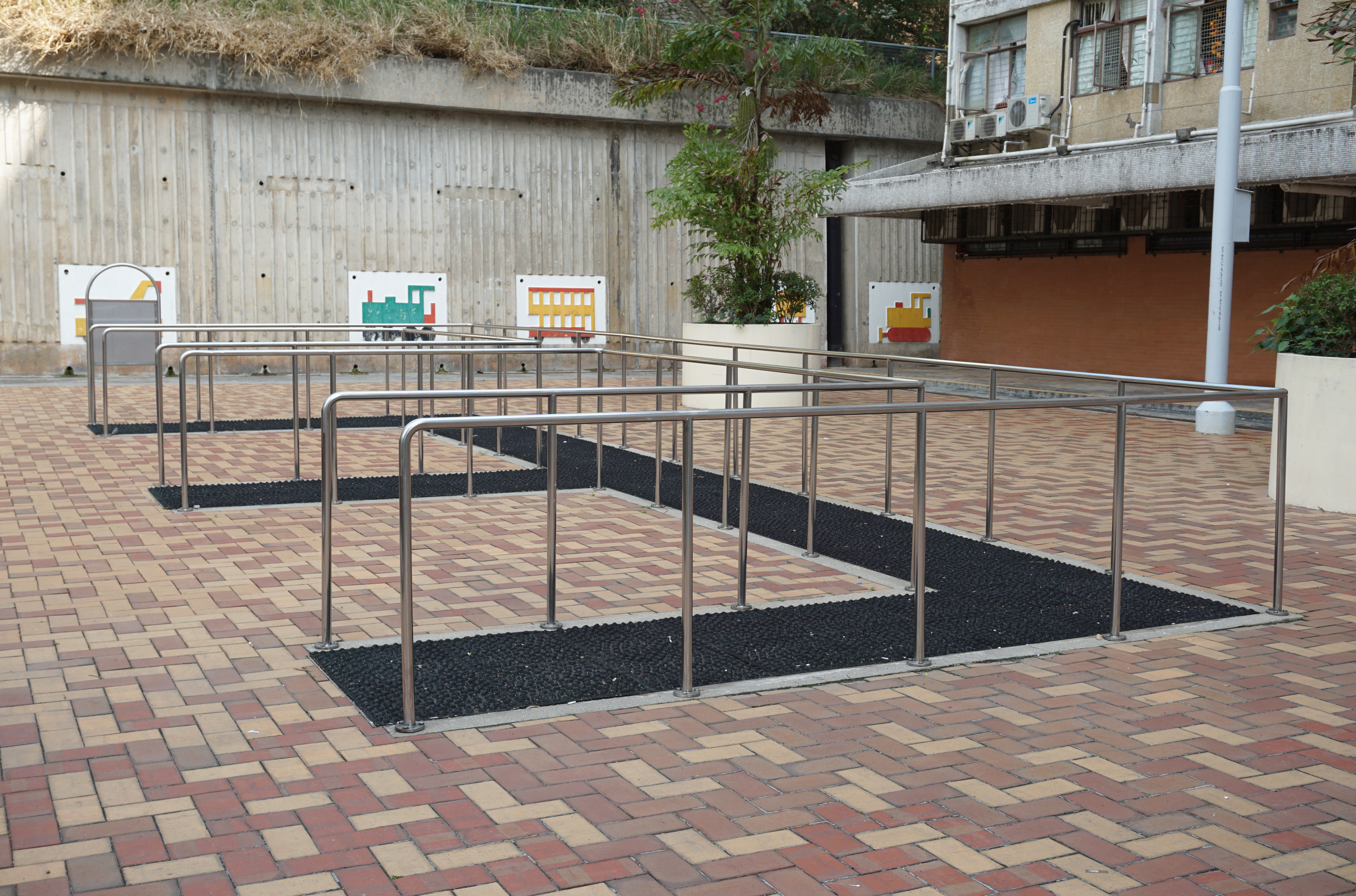 Tai Hang Tung Estate in Shek Kip Mei, Hong Kong.